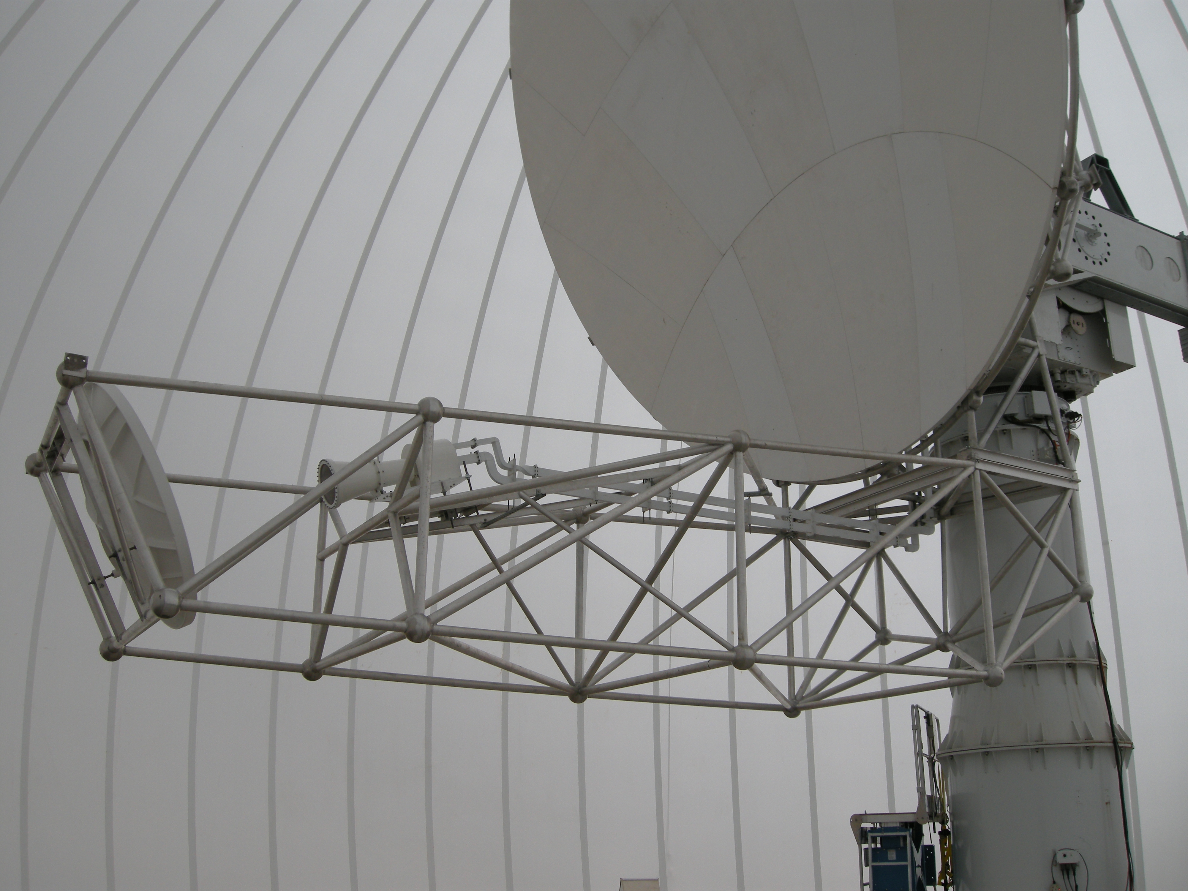 CSU-CHILL antenna and feedhorn